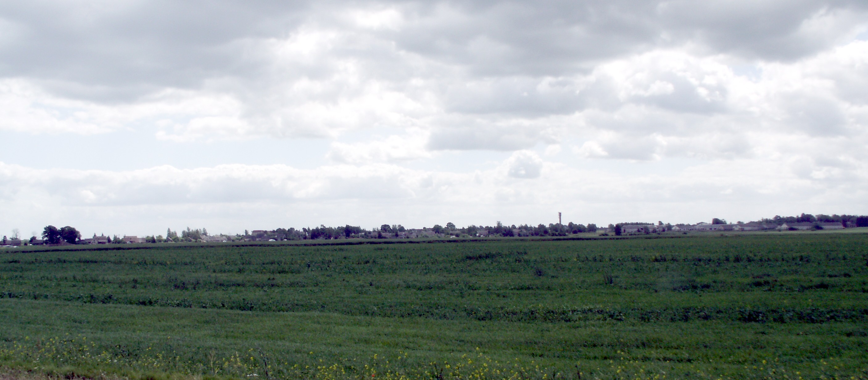 Žadžiūnai, Šiauliai district